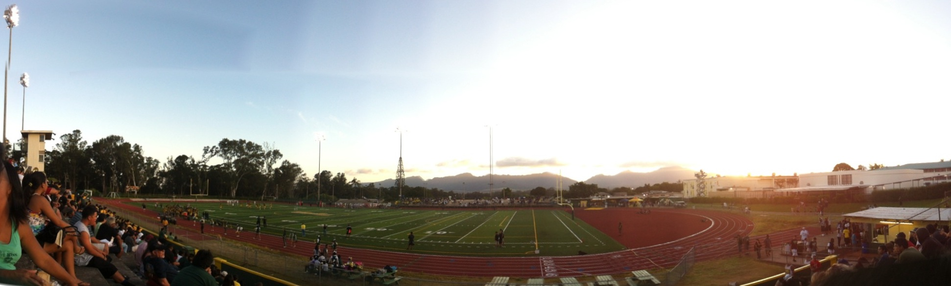 Leilehua High School @ Wahiawa